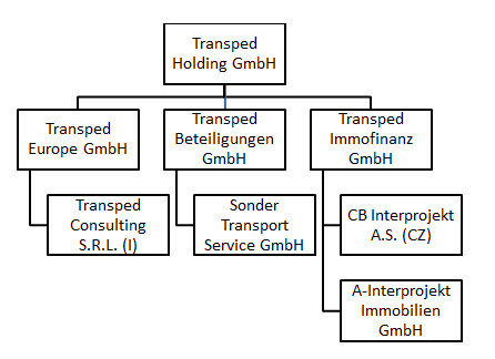 Organisational diagram Transped Group